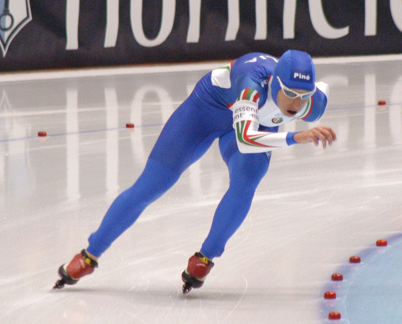 Chiara Simionato (ITA) in action at a World Cup Speedskating in Heerenveen, the Netherlands